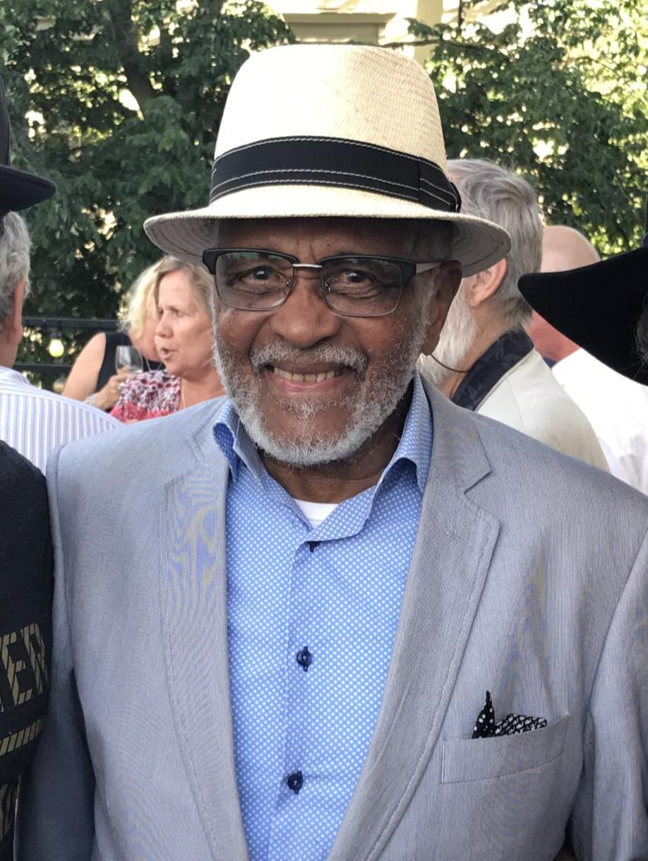 Graham Tainton at Colin Dyall's remembrance eventPlace: Södra Teatern, Stockholm, Sweden